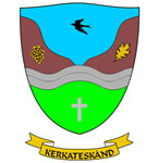 Coat of arms of Kerkateskánd, Hungary